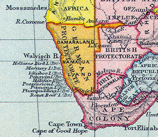 The Penguin Islands on an extract from a map of colonial Africa in the 1897 Gardiner's School Atlas of English History.